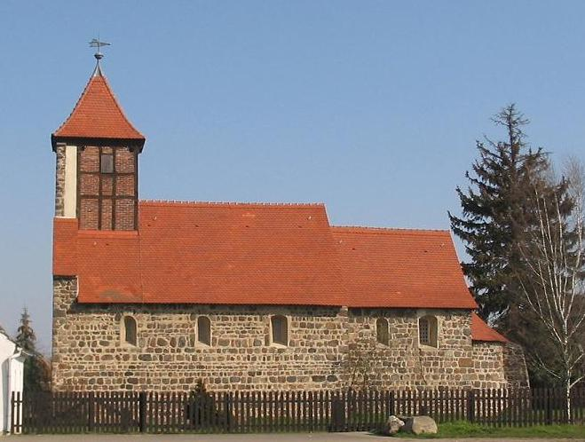 Stonechurch Ragösen, built around 1200. The municipality Ragösen belongs to the the district Wittenberg, state Saxony-Anhalt, Germany.